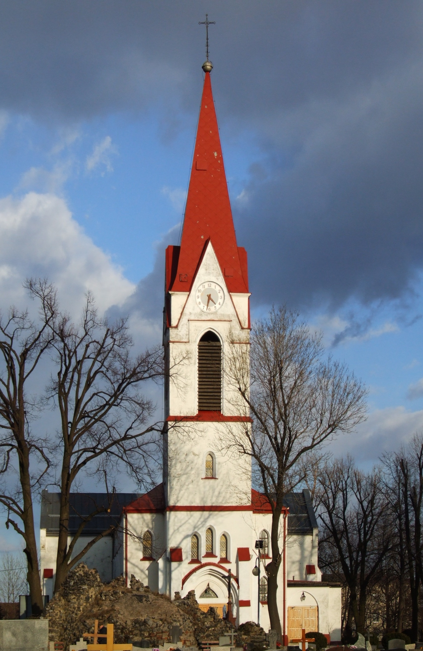 Our Lady Queen of the Rosary church in Łaziska Górne, Silesian Voivodeship